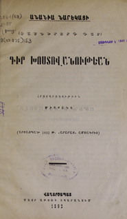 Անանիա Նարեկացի, «Գիր խոստովանութեան»